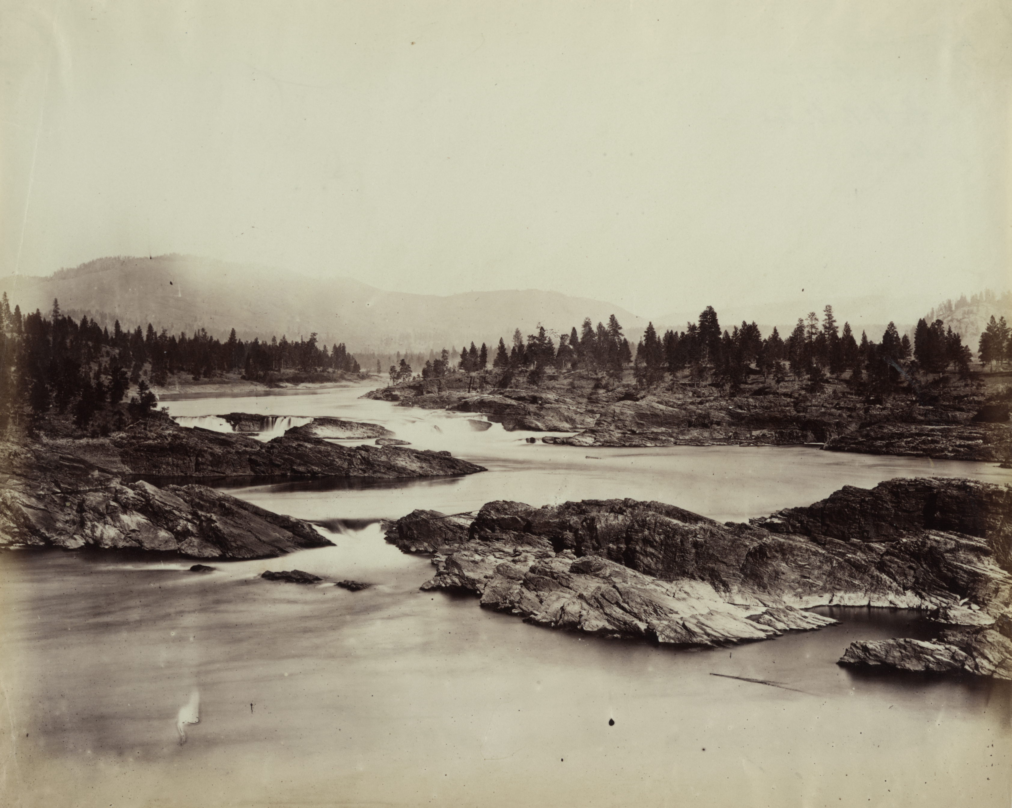 Part of the Kettle Falls of the Columbia River, 1860